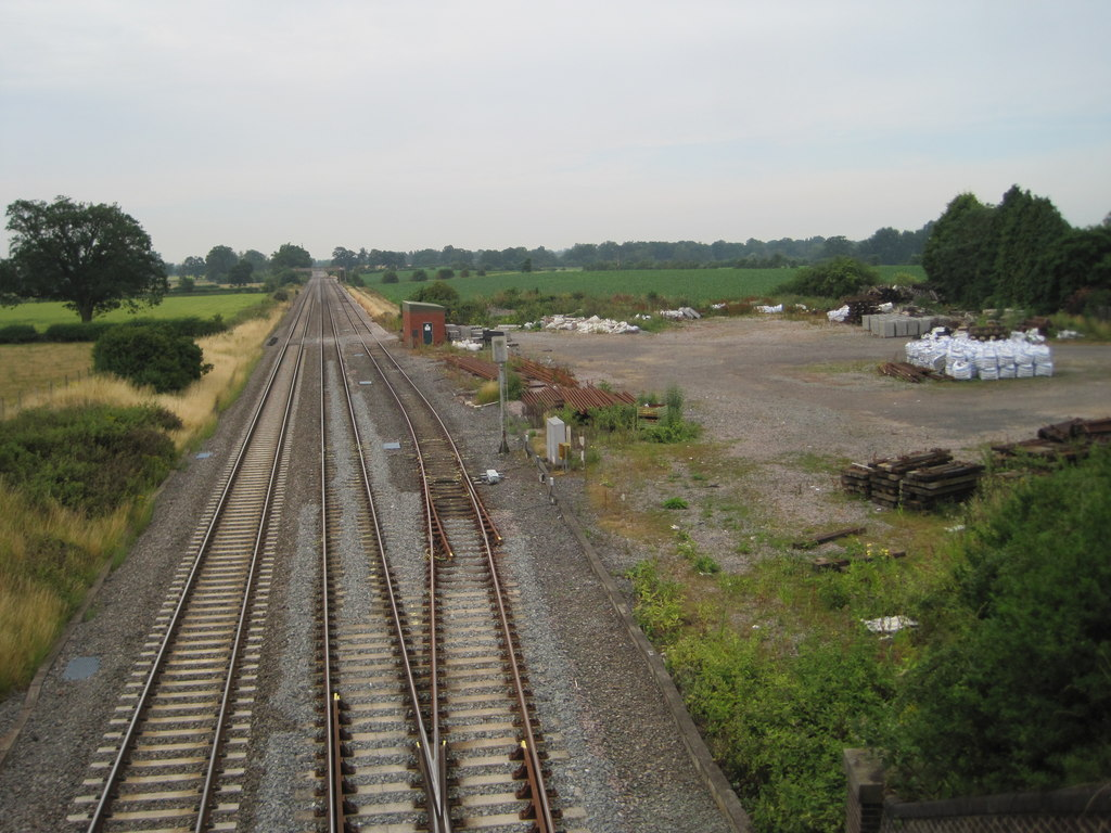 Spetchley railway station (site), WorcestershireOpened in 1840 by the Birmingham & Gloucester Railway, this station closed to passengers as early as 1855, and completely in the mid 1960s (needs confirmation). View south towards Wadborough and Gloucester.